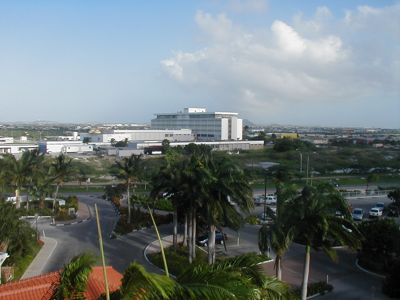 Hospital in Oranjestad, Aruba from . Photographer allow to use it under GFDL